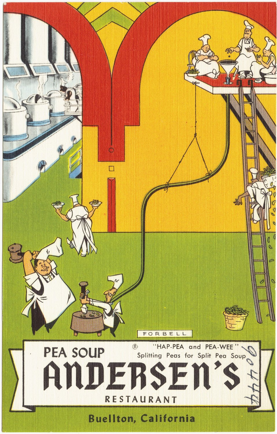 File name: 06_10_009448 Title: Andersen's restaurant, Buellton, California Date issued: 1930 - 1945 (approximate) Physical description: 1 print (postcard) : linen texture, color ; 3 1/2 x 5 1/2 in. Genre: Postcards Subject: Restaurants Notes: Title from item. Collection: The Tichnor Brothers Collection Location: Boston Public Library, Print Department Rights: No known restrictions